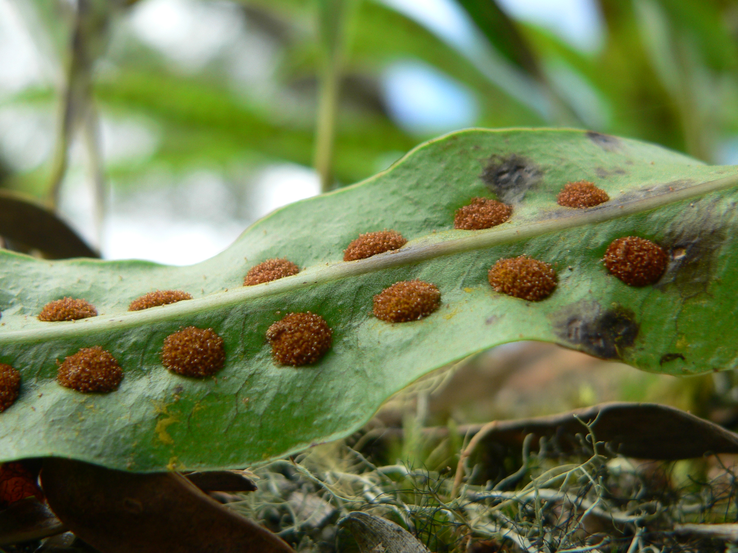 Spores on a fern.